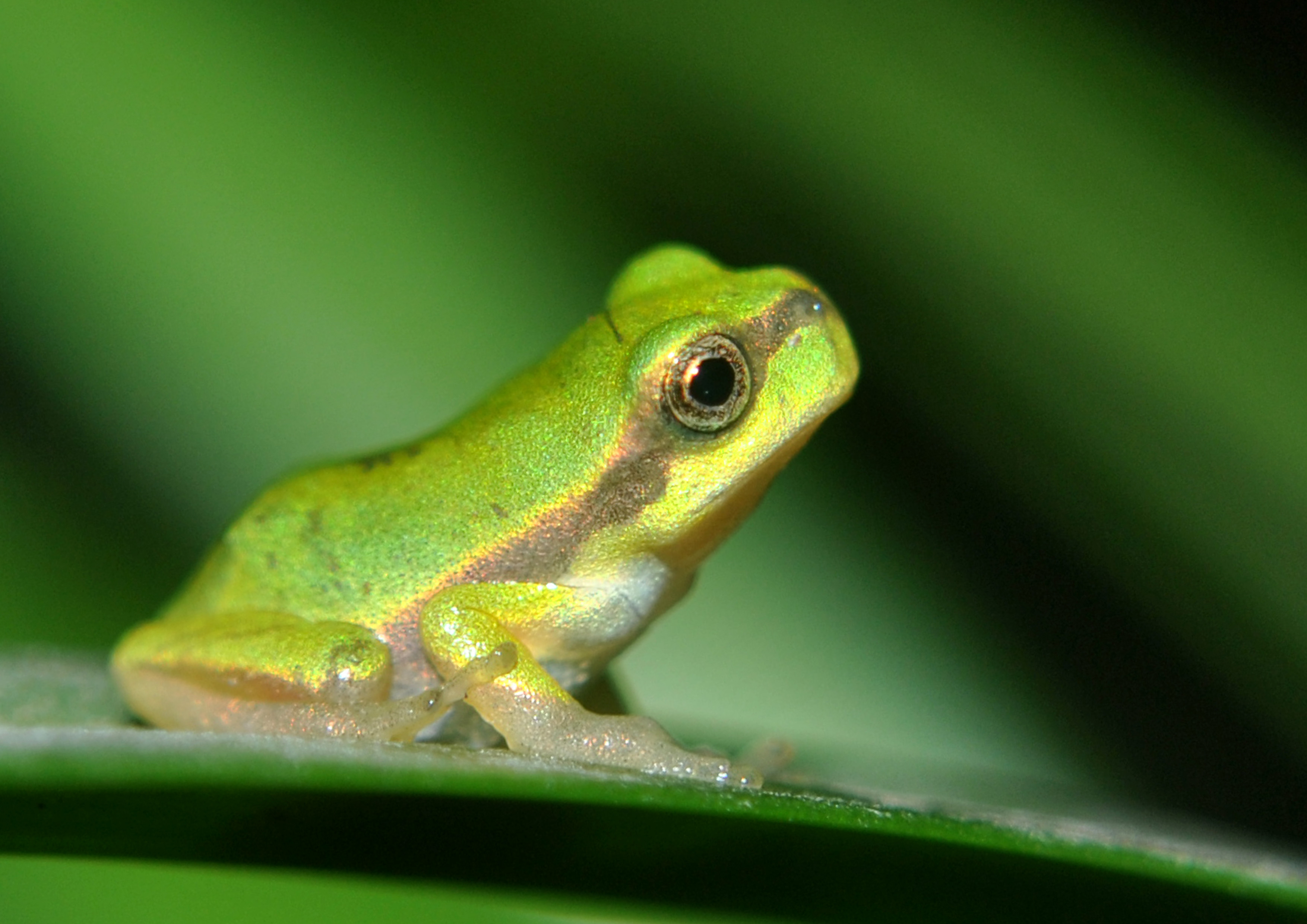 Hyla annectans (Jerdon, 1870) - Jerdon's tree frog, Assam treefrog, Indian hylid frog, green leave frog, or Southwestern China treefrog